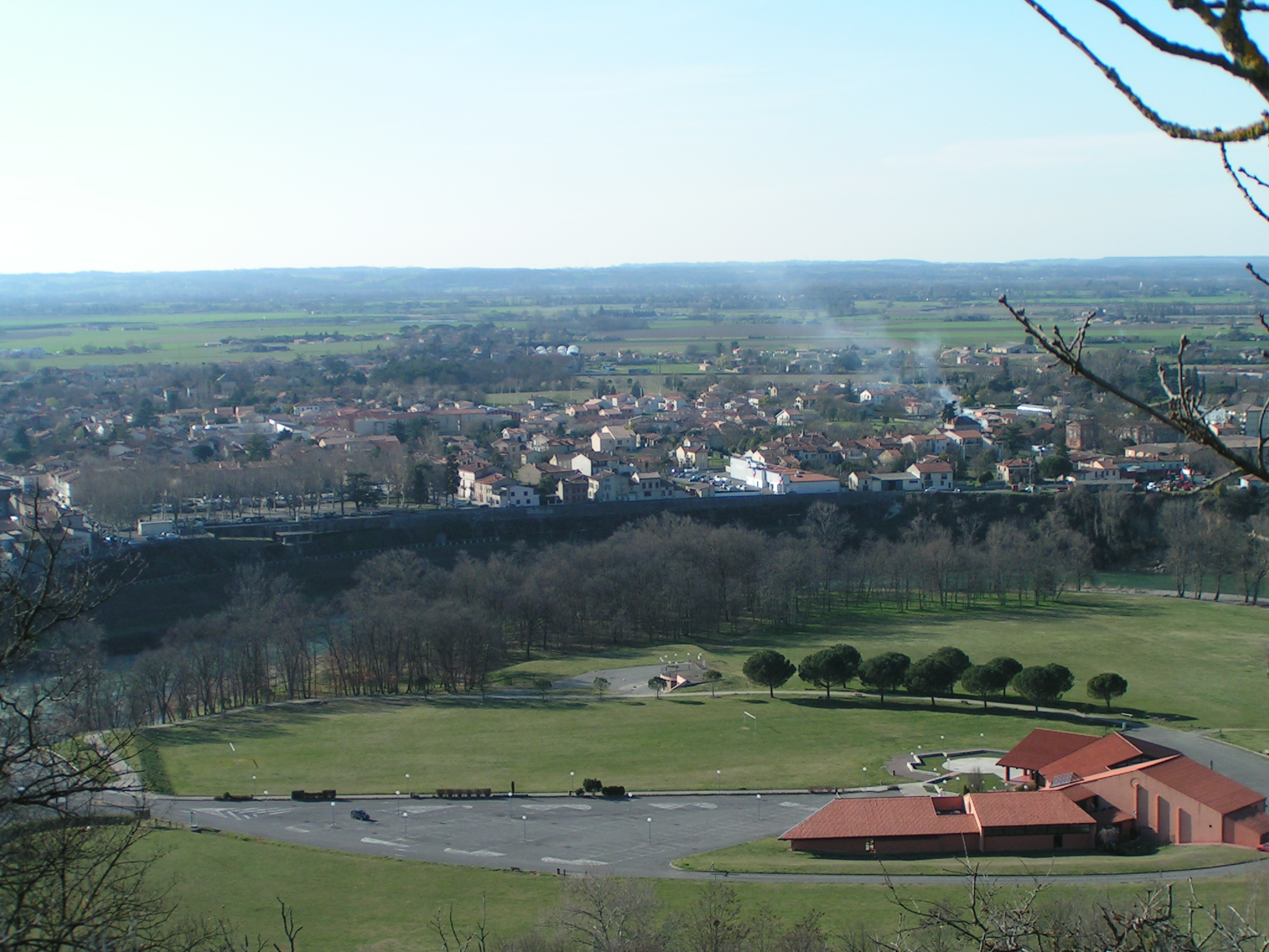 View over Carbonne, Departement of Haute-Garonne, France.